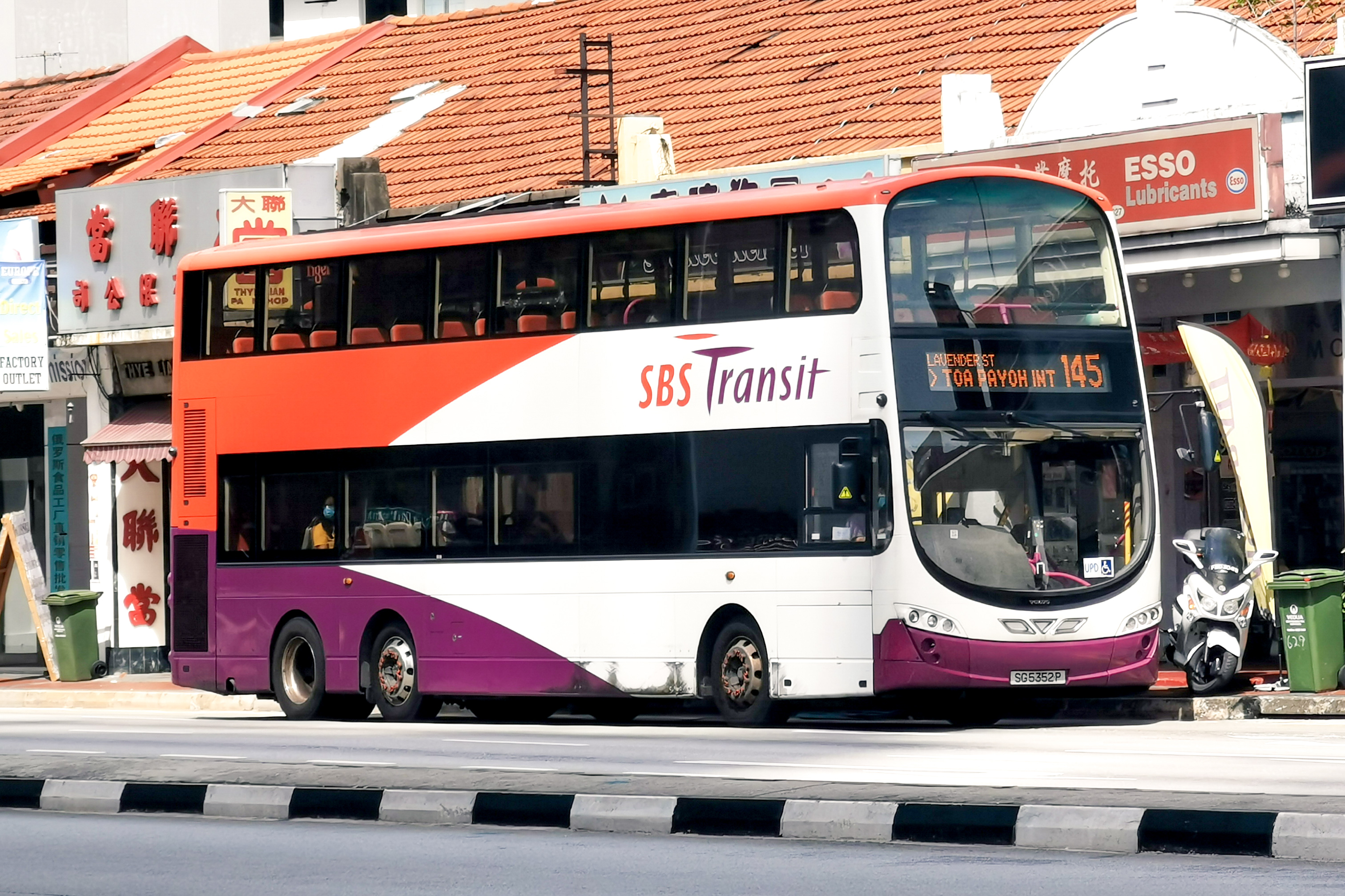 SBS Transit Volvo B9TL Wright Eclipse Gemini 2 - SG5352P 145.